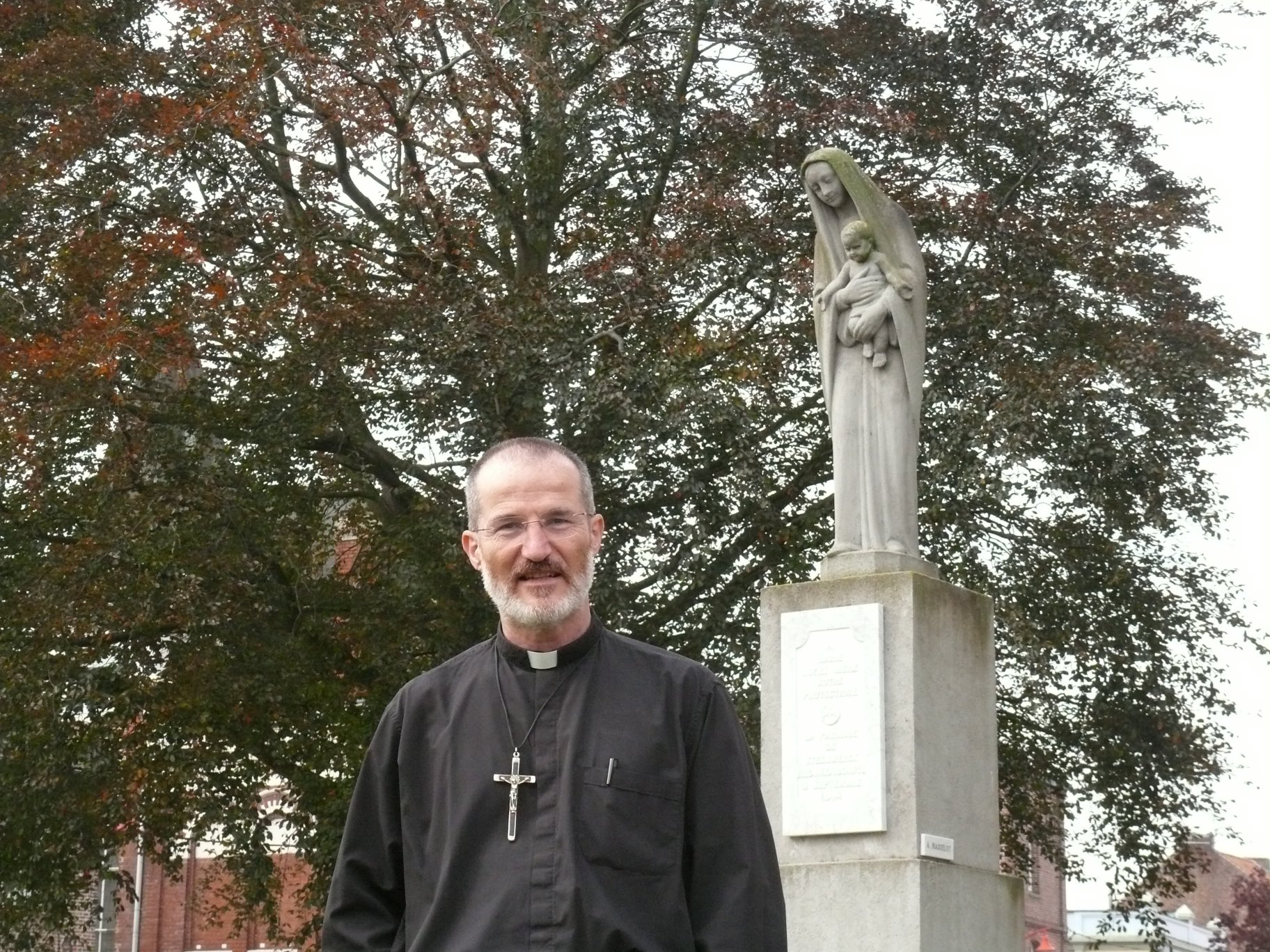 Father Guy Pagès at the 2014 forum « Jésus le Messie » in Steenwerck (Nord, France).